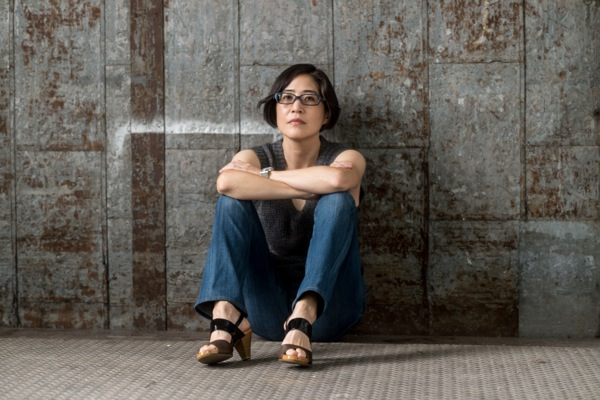 Kyoko Kitamura, photo by Michael Weintrob